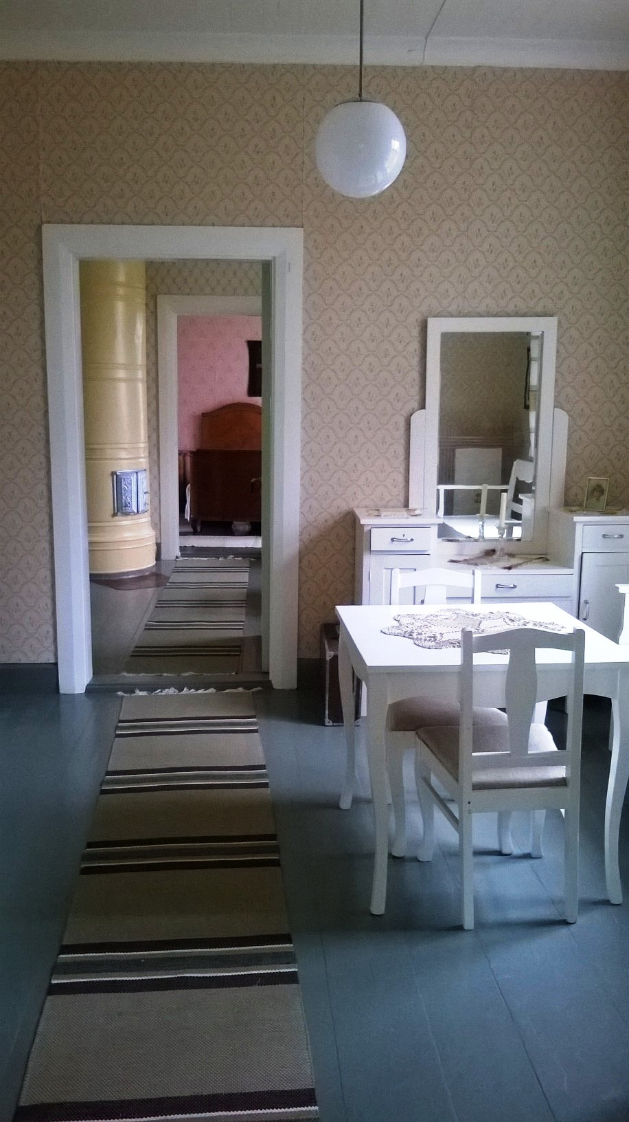 Interior from the Ranua Vicarage and Parish Museum.